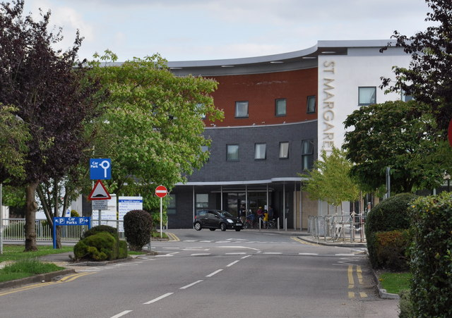 The new Epping Forest Unit, St. Margarets Hospital. This new unit houses various clinics and the Cafe.